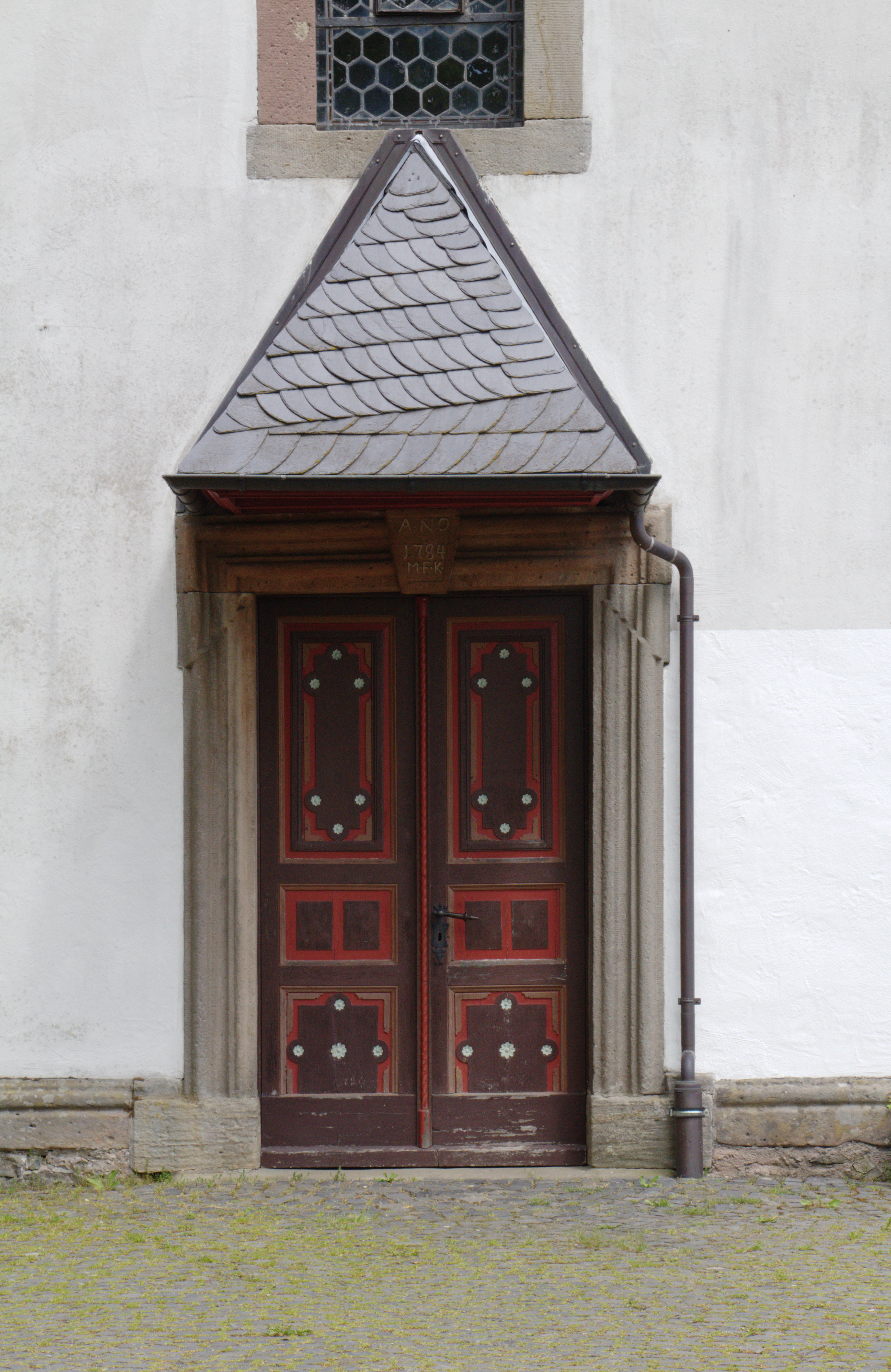 Protestant Church (portal) in Grebenhain, Grebenhain, Hesse, Germany